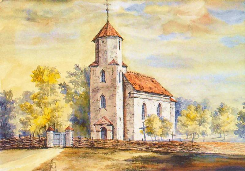 Evangelical Reformed Church in Deltuva, Lithuania. Painting by Napoleon Orda